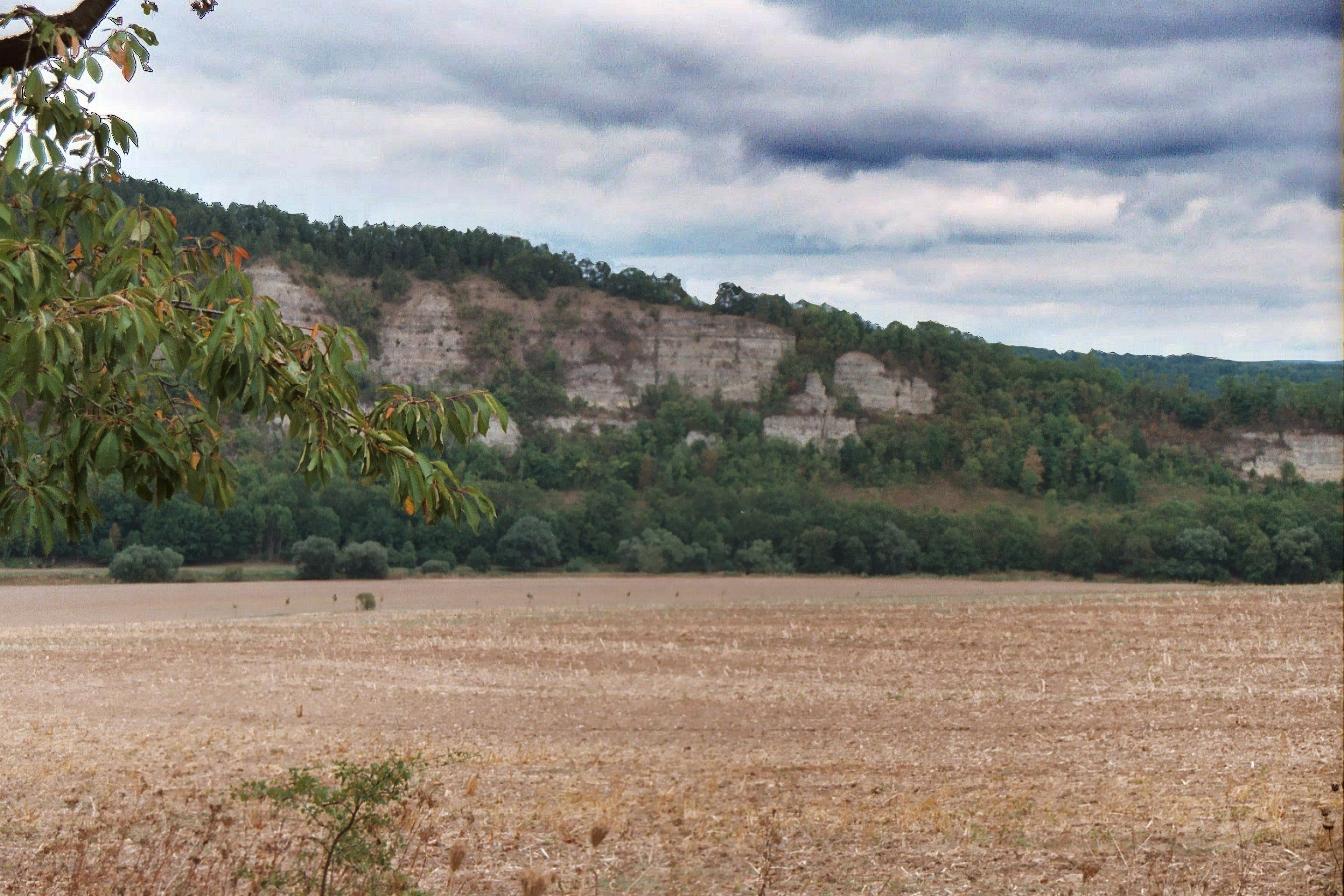 Creuzburg, the lime rocks "Ebenauer Köpfe"